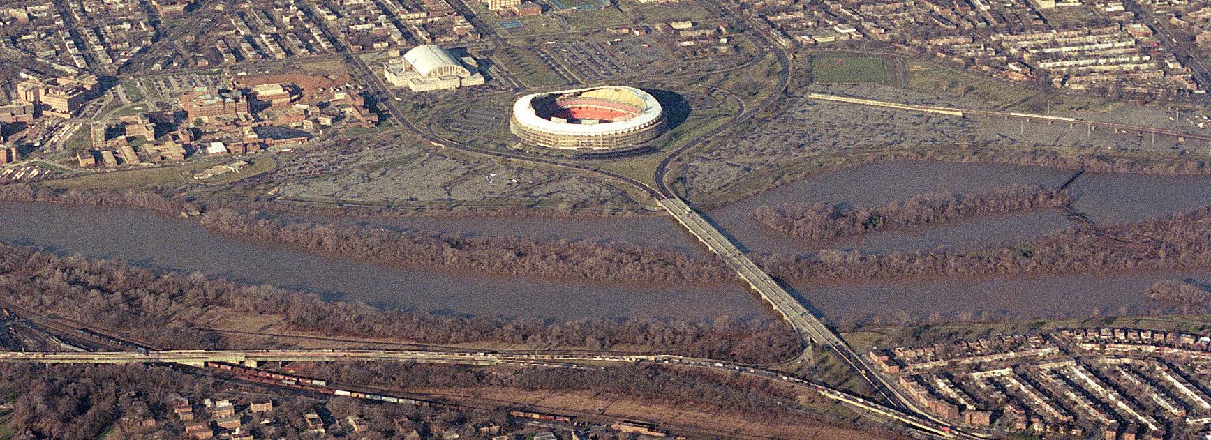 Kingman Lake in in Washington, D.C. in the United States in 1991. At the top of the image is the western shore of the lake. The domed building is the District of Columbia Armory and the stadium is the Robert F. Kennedy Stadium. Kingman Lake is the body of water with the island (Heritage Island) in it. The next body of land is Kingman Island. The body of water at the bottom of the photograph is the Anacostia River. The bridge is the Whitney Young Memorial Bridge (also known as the East Capitol Street Bridge). Anacostia Park occupies the western shore of Kingman Lake and the eastern short of the Anacostia River.